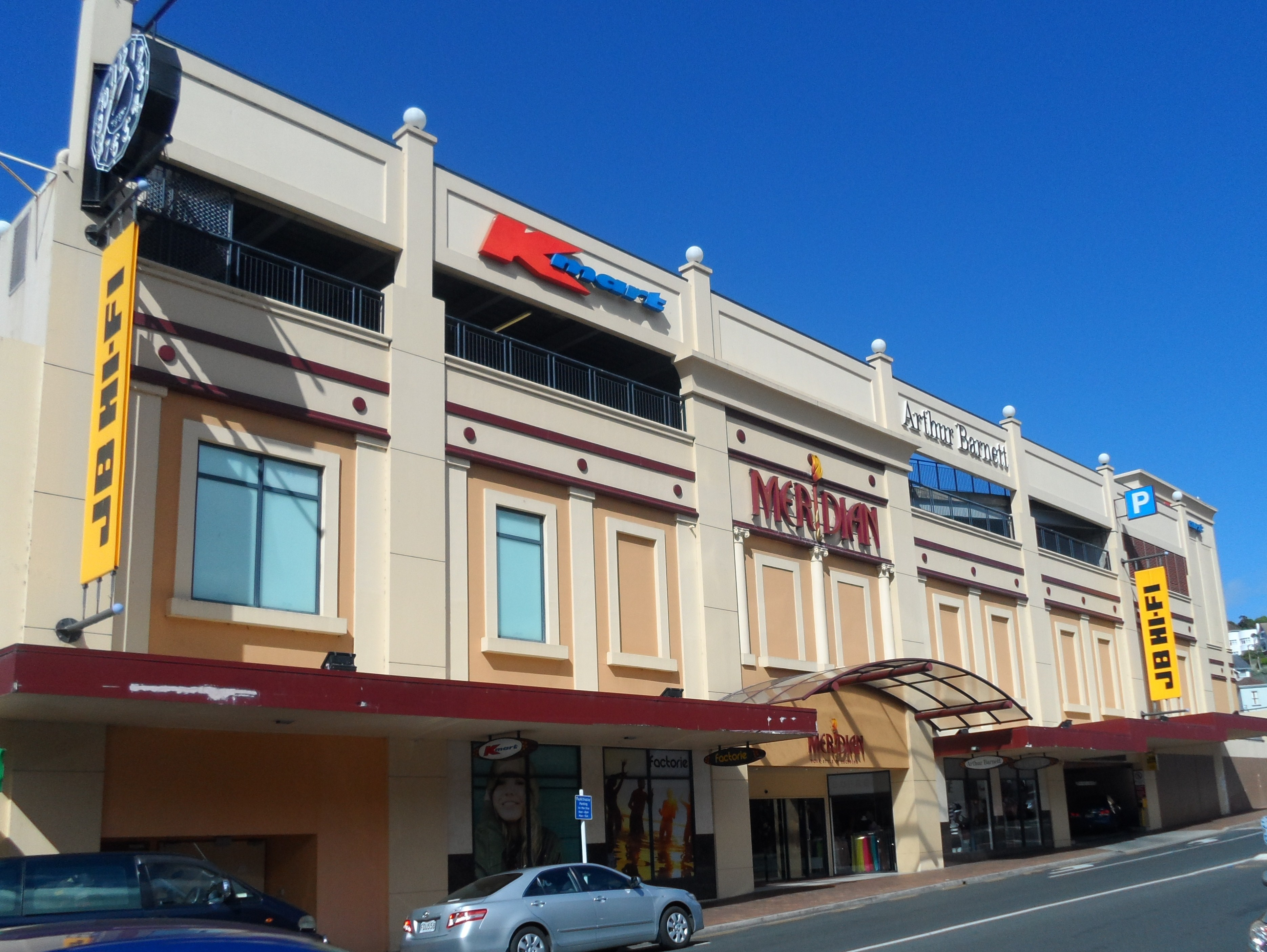 The North-East facade of the Meridian Mall in New Zealand on Hanover Street. Image taken 11-01-2013. pear 09:05, 11 January 2013 (UTC)